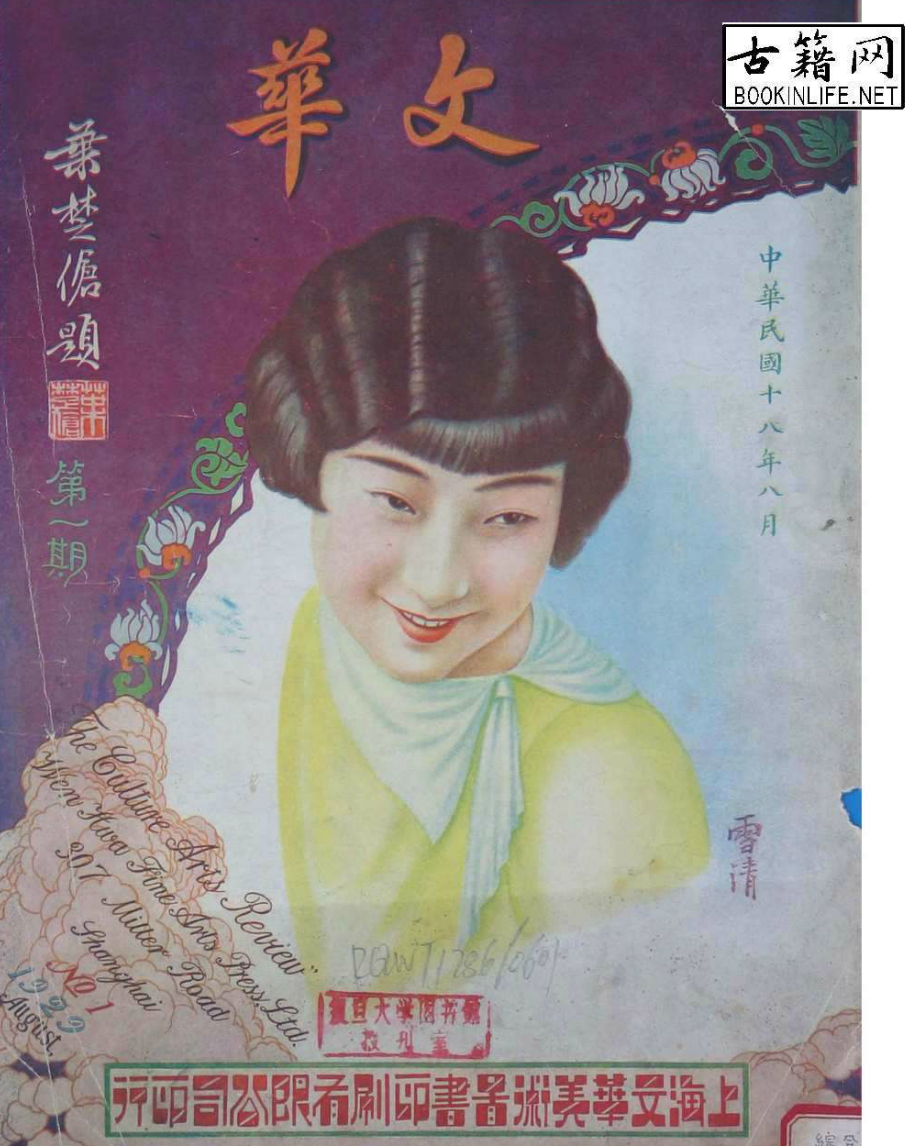 Cover of The Culture Arts Review also known as Wen Hwa (文华 Wén huá), product of the Wen Hwa Fine Arts Press Ltd.